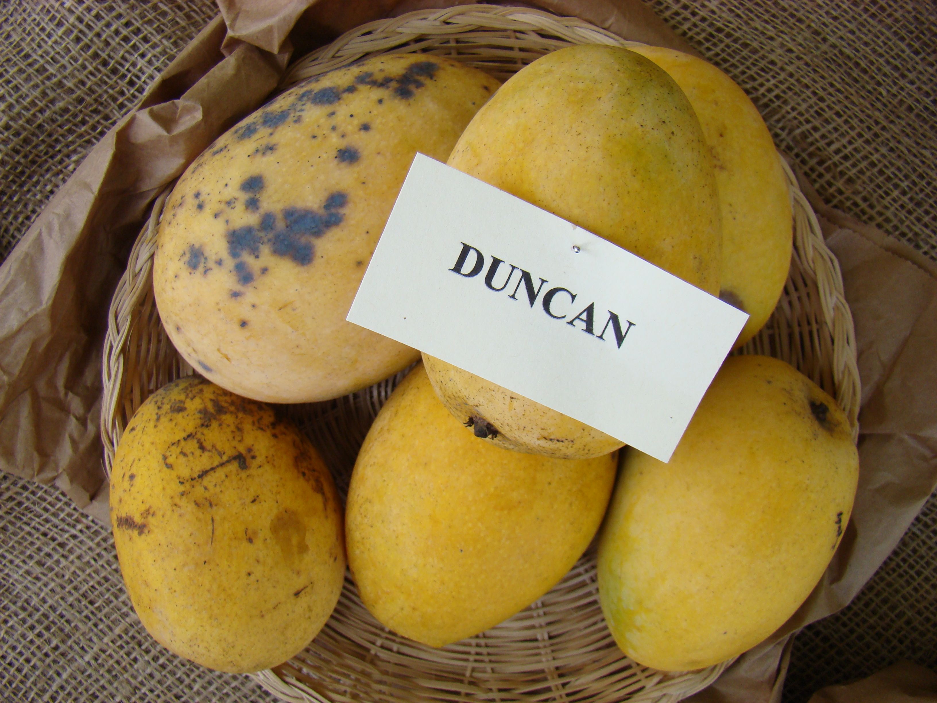 This is a photo of the display of Duncan mango at the Redland Summer Fruit Festival, Fruit & Spice Park, Homestead, Florida.